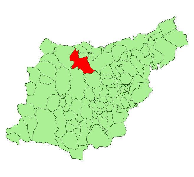 Zestoa municipality in the province of GuipuzcoaEuskara: Zestoako udal eremuak Gipuzkoa barruan